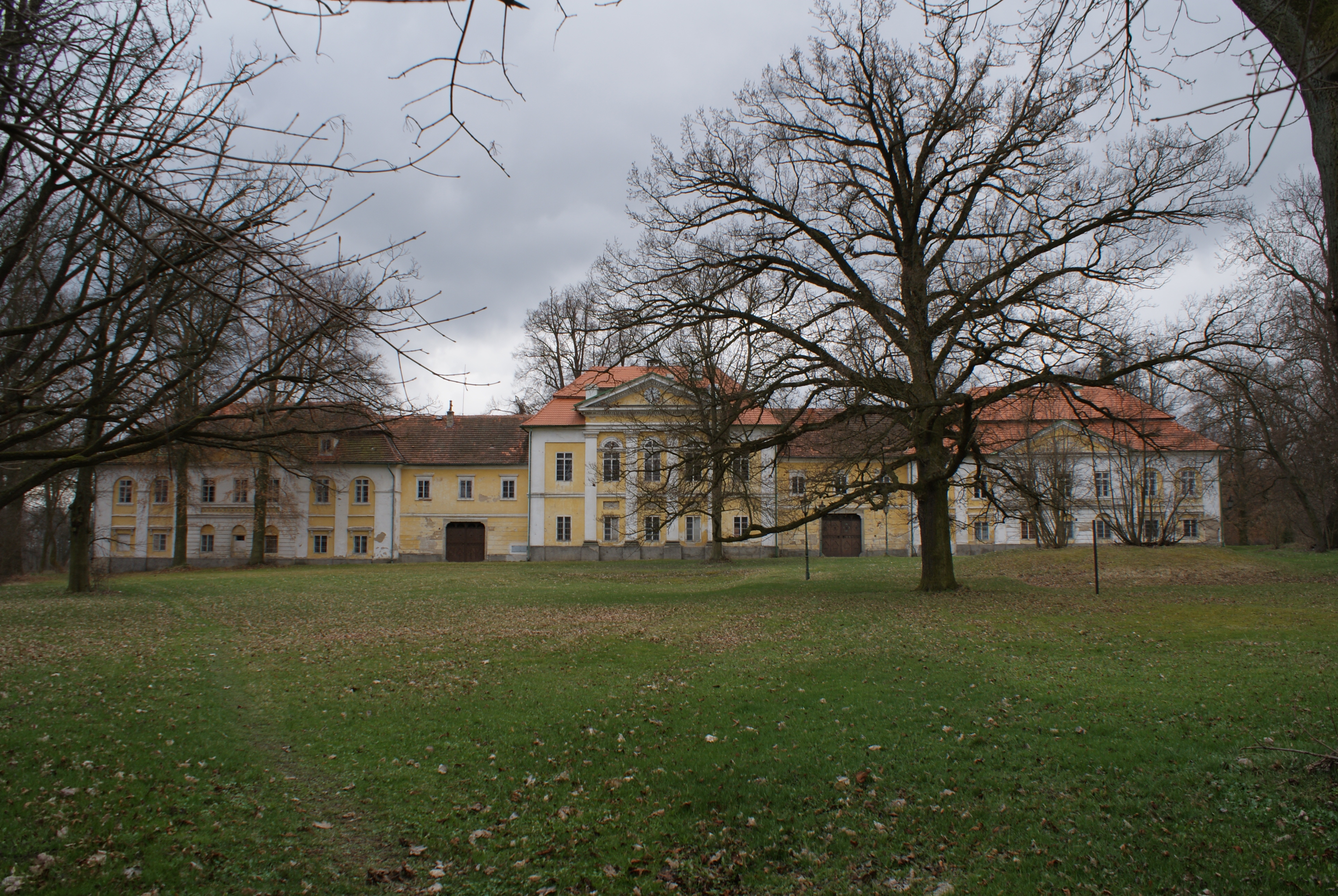 Tochovice, a village in Příbram district, Czech Republic, the castle.